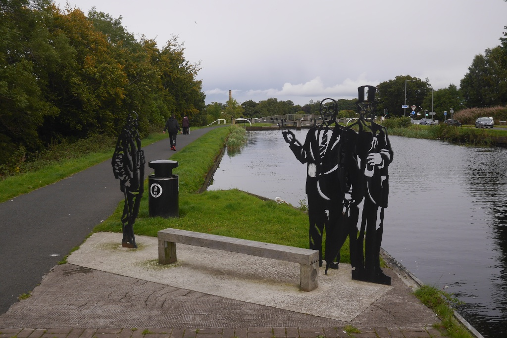 Sculpture, Camelon